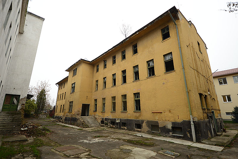 This is the so-called "yellow ward", one of the still standing buildings of the Internment Camp of Kistarcsa, aka the Central Detention and Relocation Camp of Kistarcsa